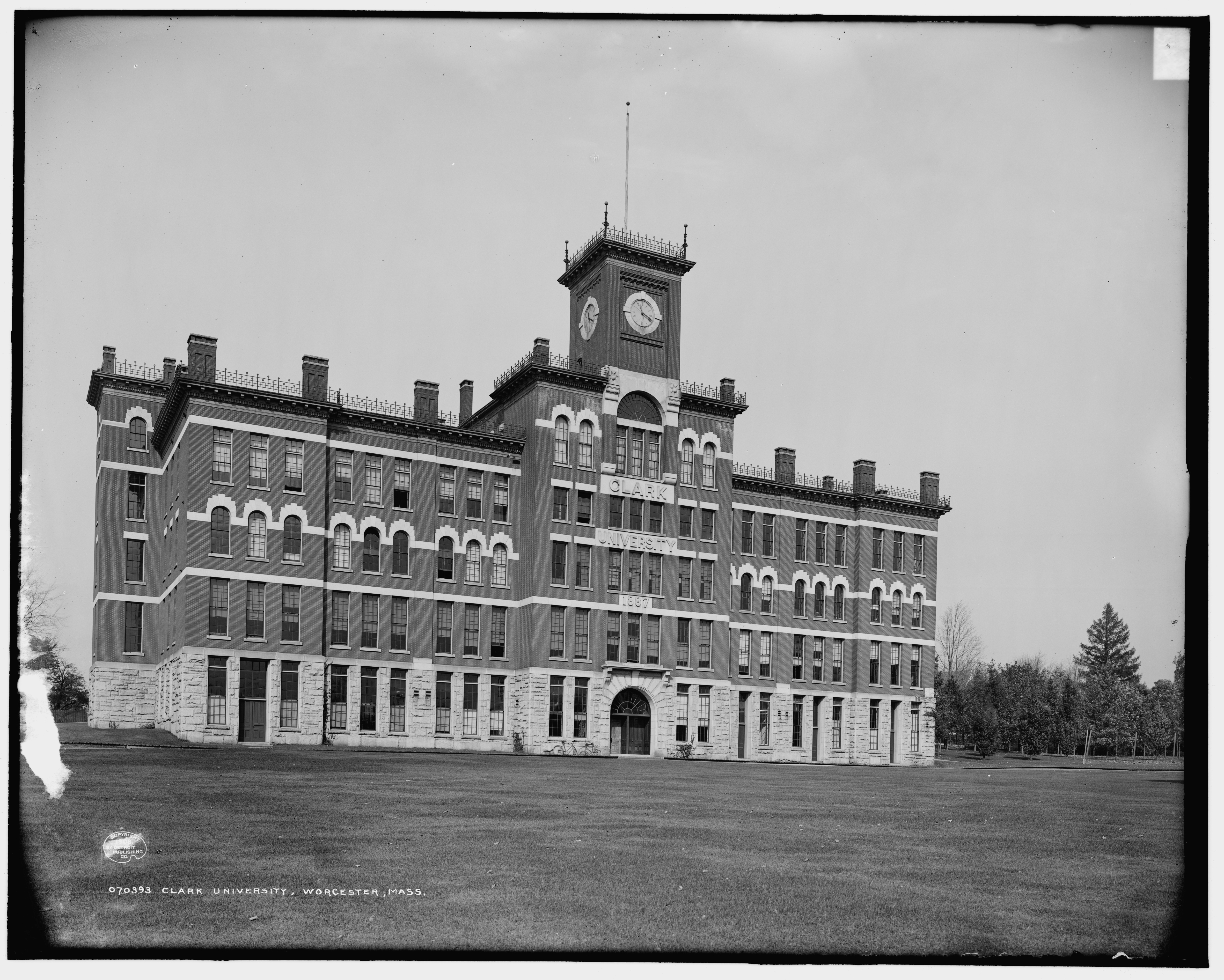 Clark University, Worcester, Massachusetts, USA. This photograph was published circa 1908.